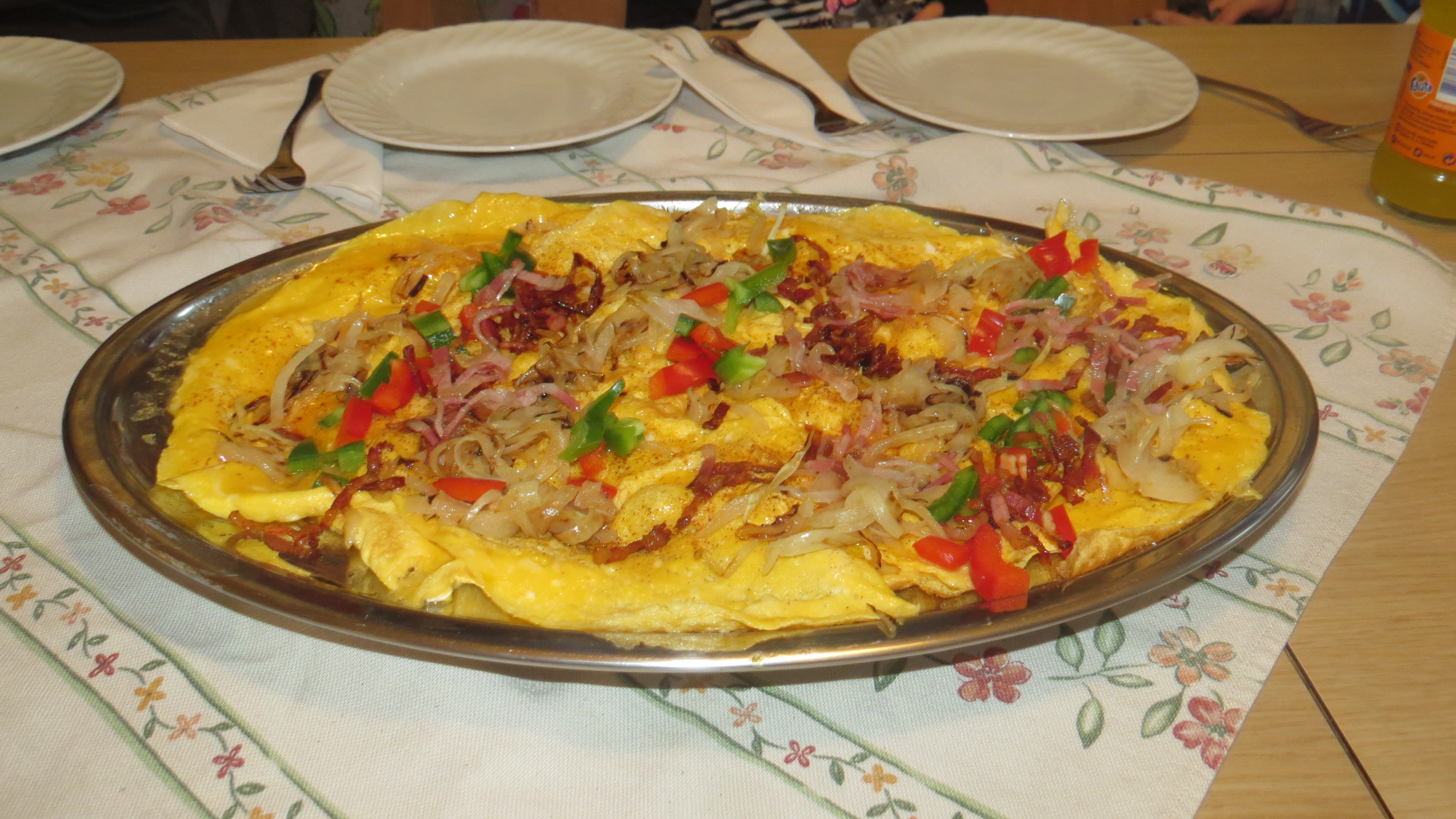 Egg dish in Gasthaus Schönau in Frankenfels